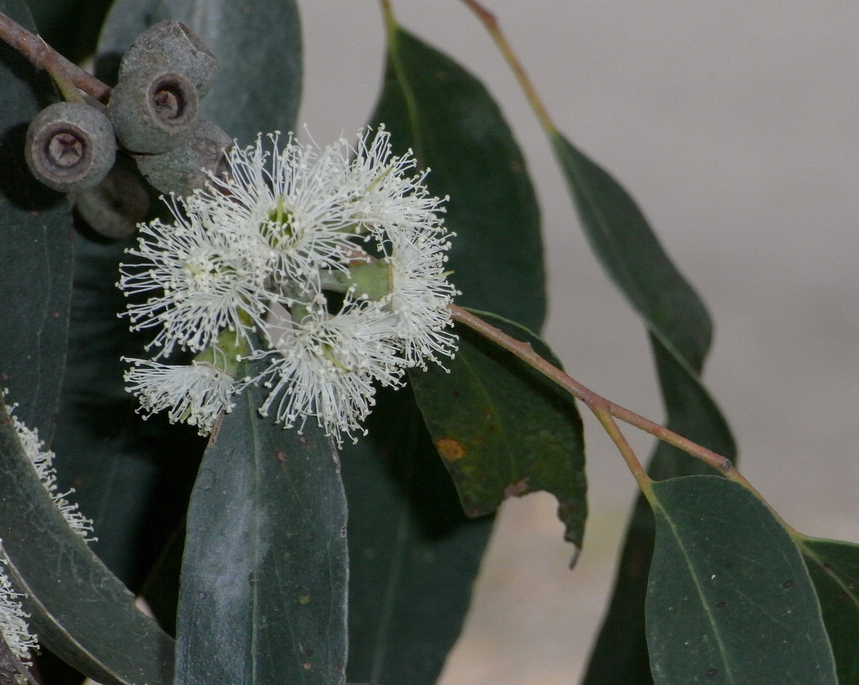 Flowers and fruit of Eucalyptus obliqua in the Macedon Ranges, Victoria